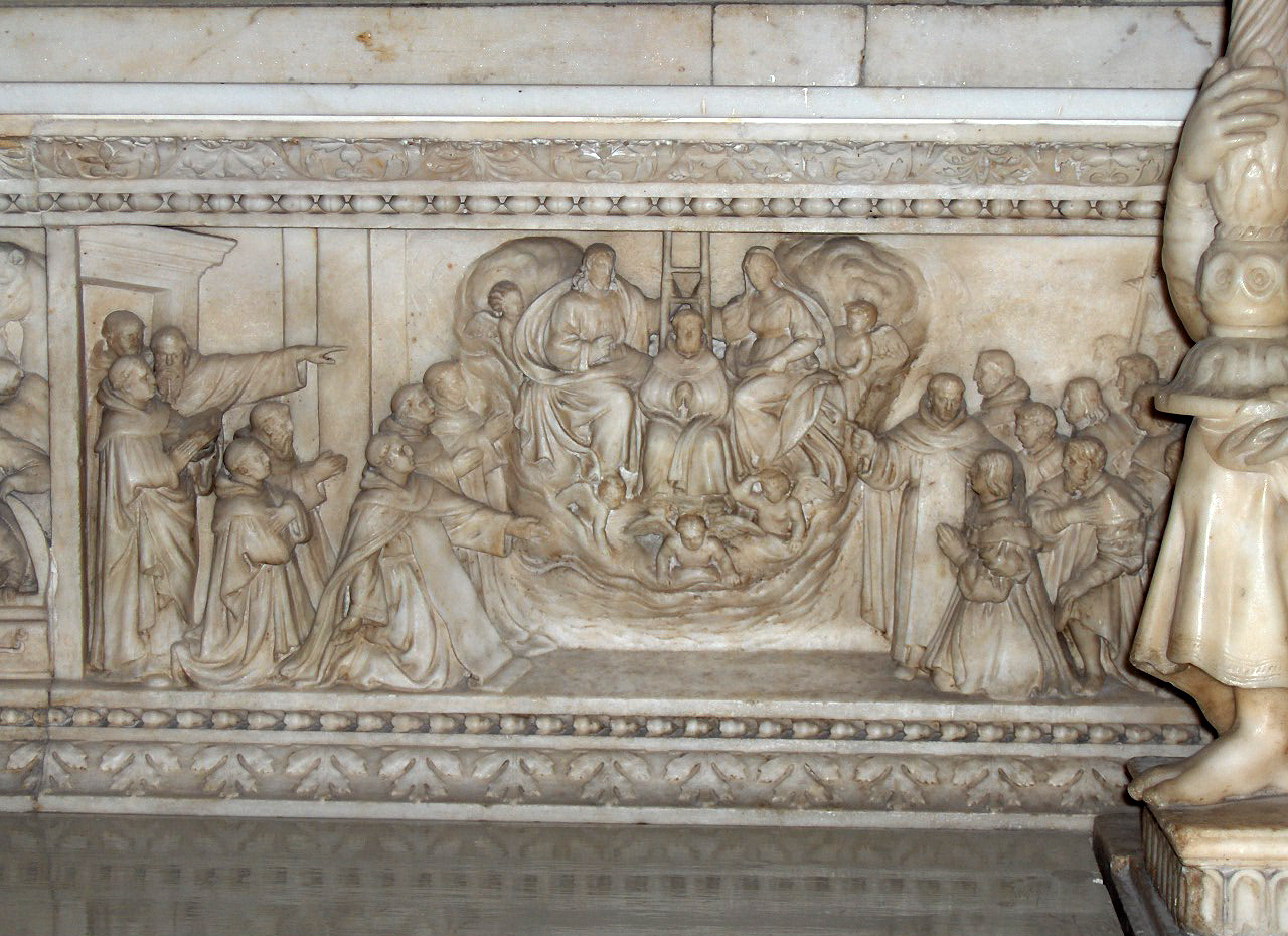 Vision of Brother Guala of St Dominic being taken to heaven on a white stairway by Christ and Mary (by Alfonso Lombardi); (lower part of the ) Ark of Saint Dominic, Basilica of Saint Dominic, Bologna, Italy